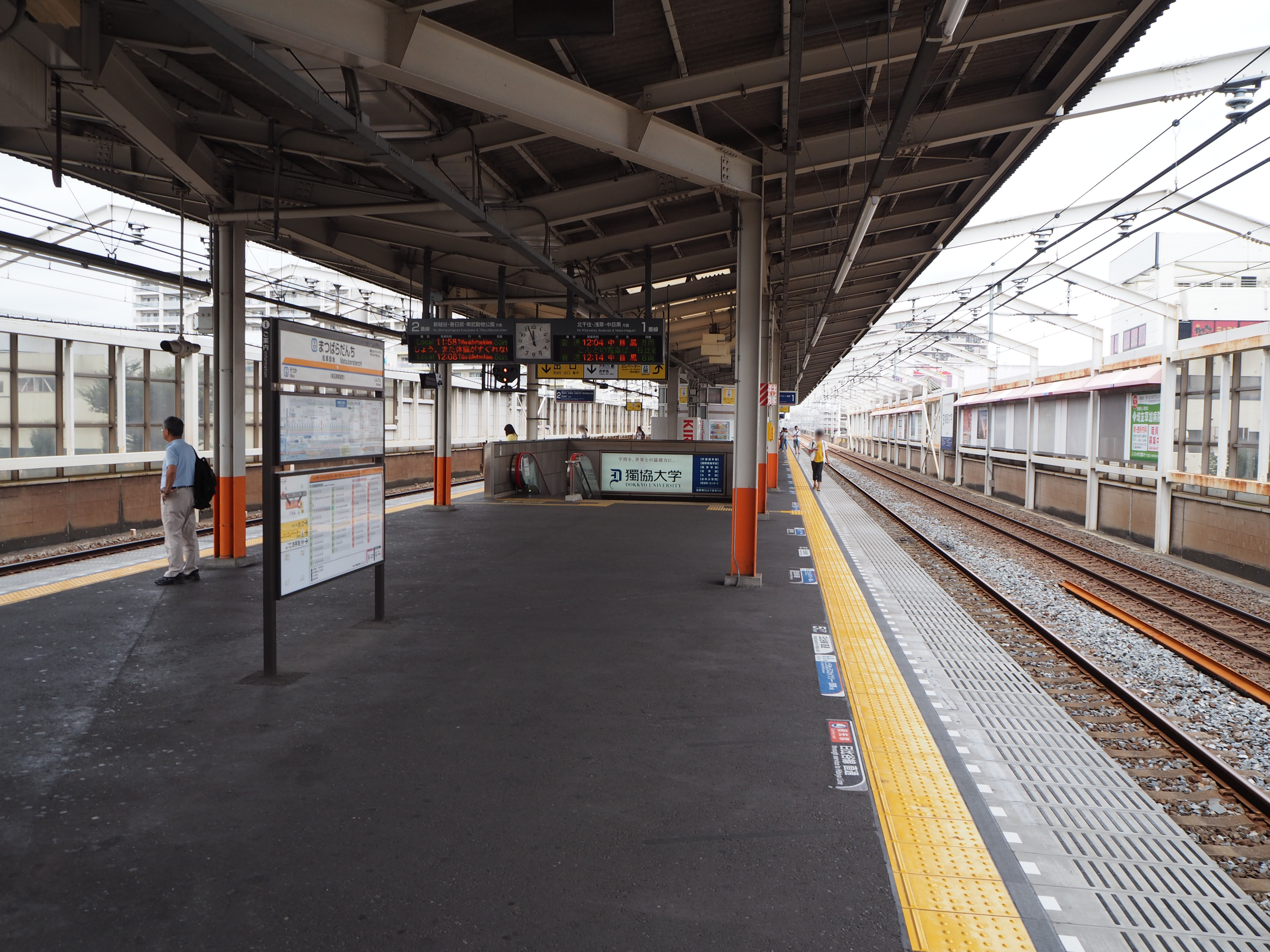 The platforms at Matsubaradanchi Station (present-day Dokkyodaigakumae Station) in Saitama Prefecture, Japan